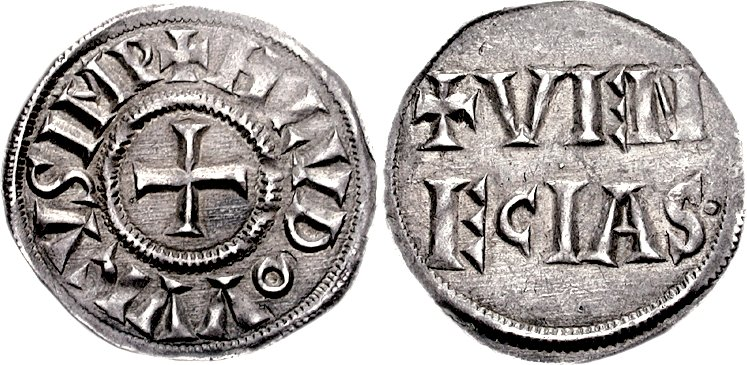 Italy, Venice. Louis the Pious. 814-840. AR Denaro (1.61 g, 9h). Venice mint. Struck 819-822. +HLVDOVVICVS IMP, small cross pattée +VEN/ECIAS• in two lines across field. Coupland, Money Class II; Depeyrot 1116D; M&G 456 var. (no pellet); MEC 1, 789 var. (same). EF, toned. From Collection C.G. Ex Coin Galleries (21 July 2004), lot 345.